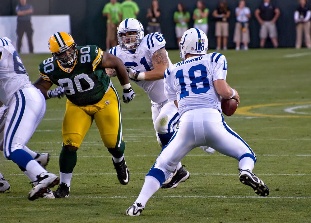 Lambeau Field, August 26, 2010. Photo by Mike Morbeck.